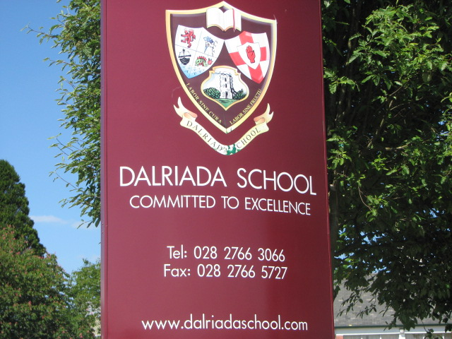 School sign The Dalriada School sign. Don't ask what the symbols mean, after 40+ years I can't remember.